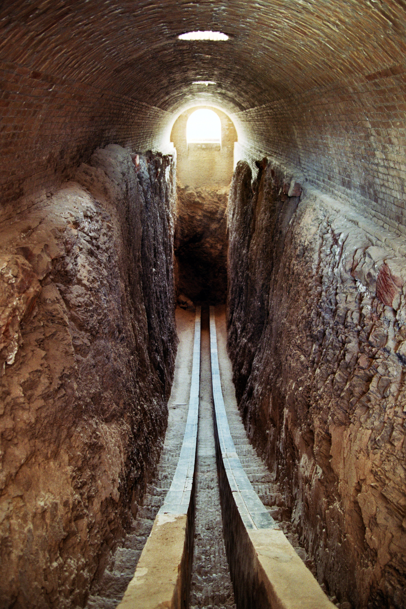 Ulugh Beg's Astronomic Observatory (1428—1429). It was found in archaeological dig by Samarkand's archaeologist V. Vyatkin at 1908